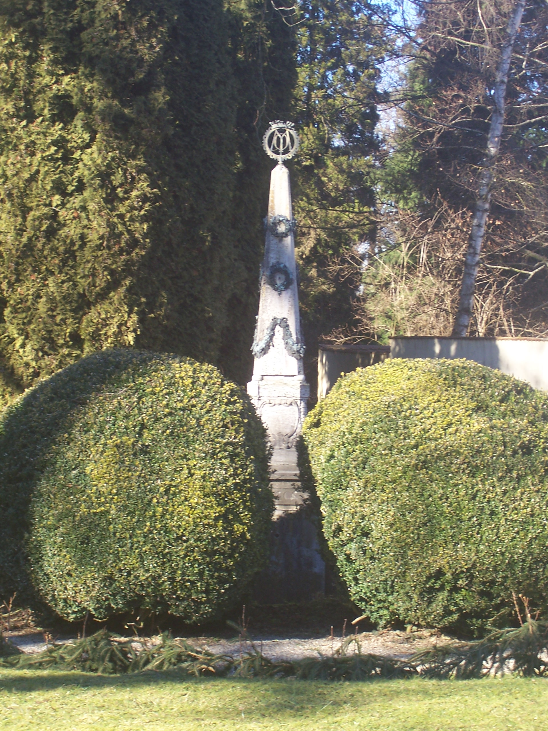 Obelisk im Schloßgarten